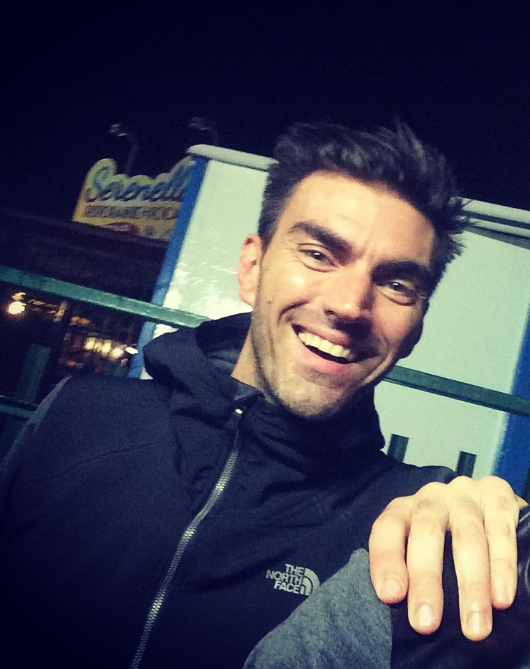 Gabry Ponte in una foto del giugno 2016